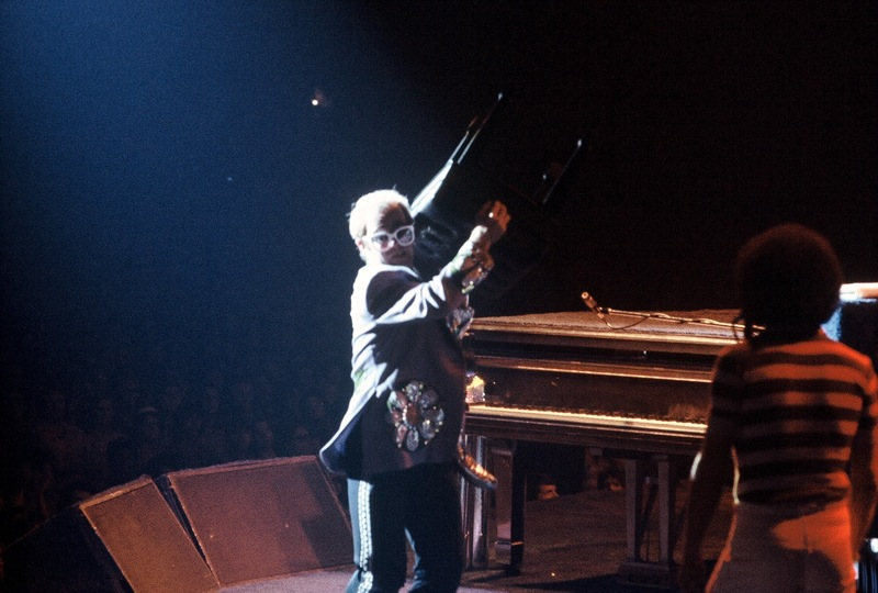 Elton John during a live performance (1975).